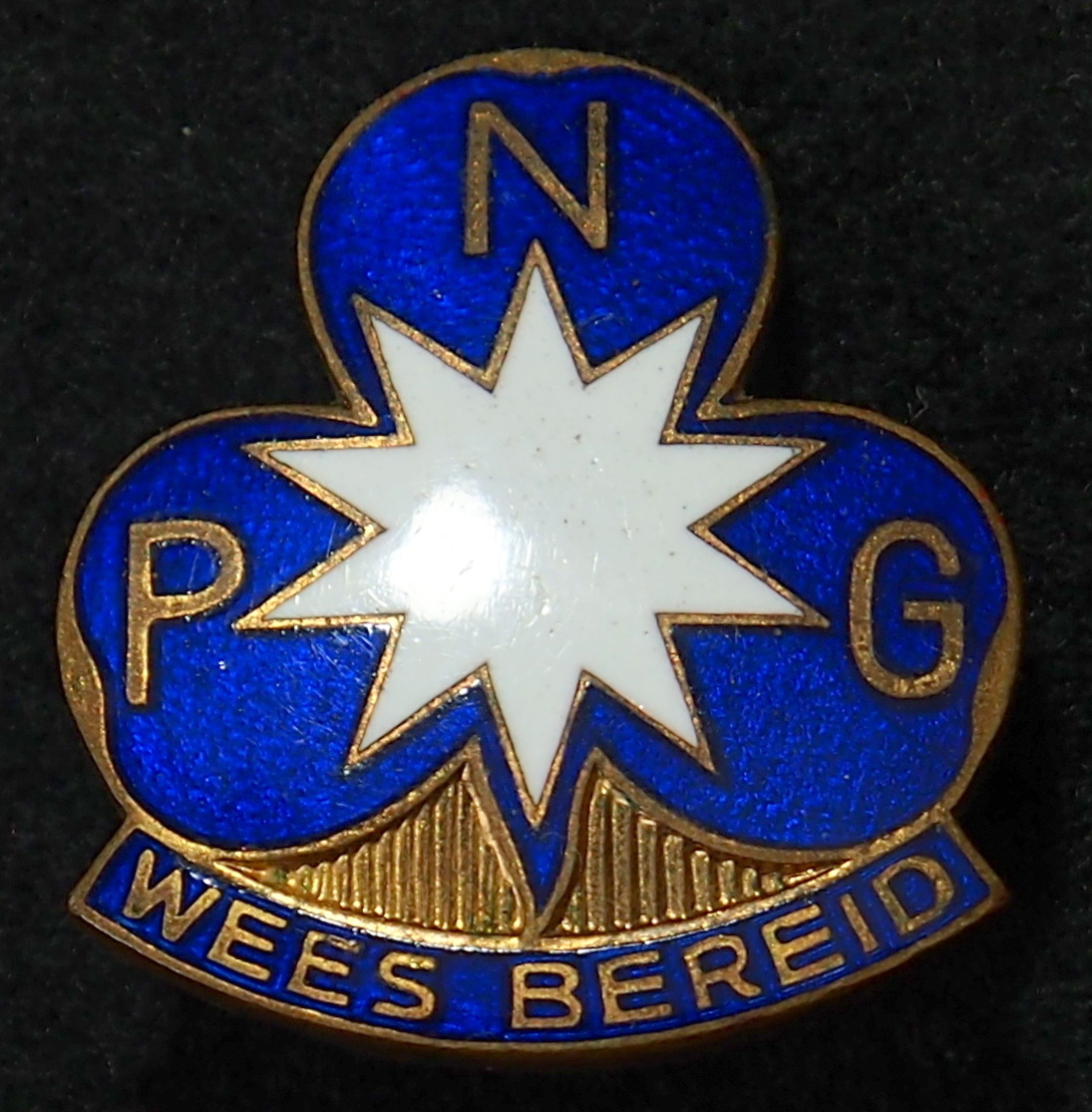 Very old product that is not produced and not sold any more. Note that some tins may look the same, but when looked for carefully there are some slight differences! Photographed at a collector of Droste memorabilia and old tin cans. For more info see tincollectors.nl or